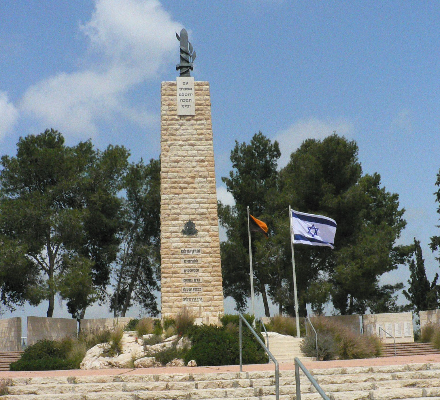 "Road of Heroism" Monument and the Memorial for the Israeli Engineering Corps near Hulda Forest